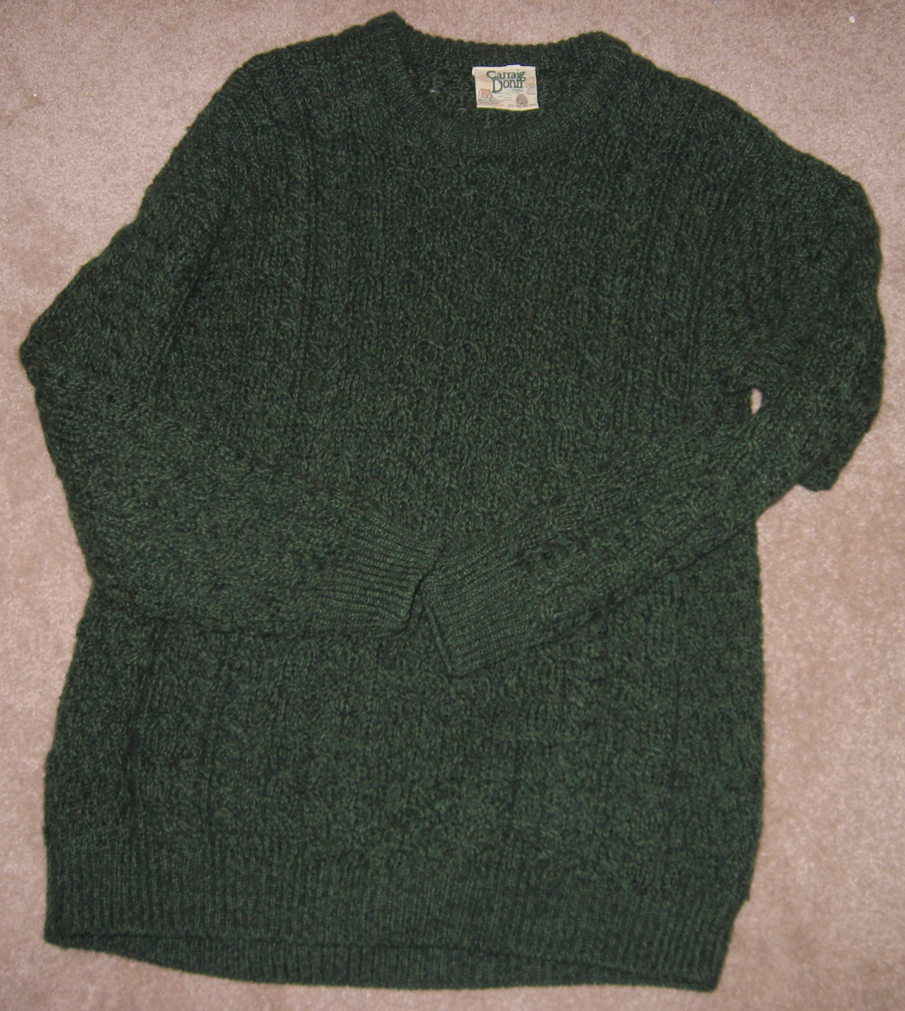 Aran Sweater, green, made by "Carraig Donn", Ireland